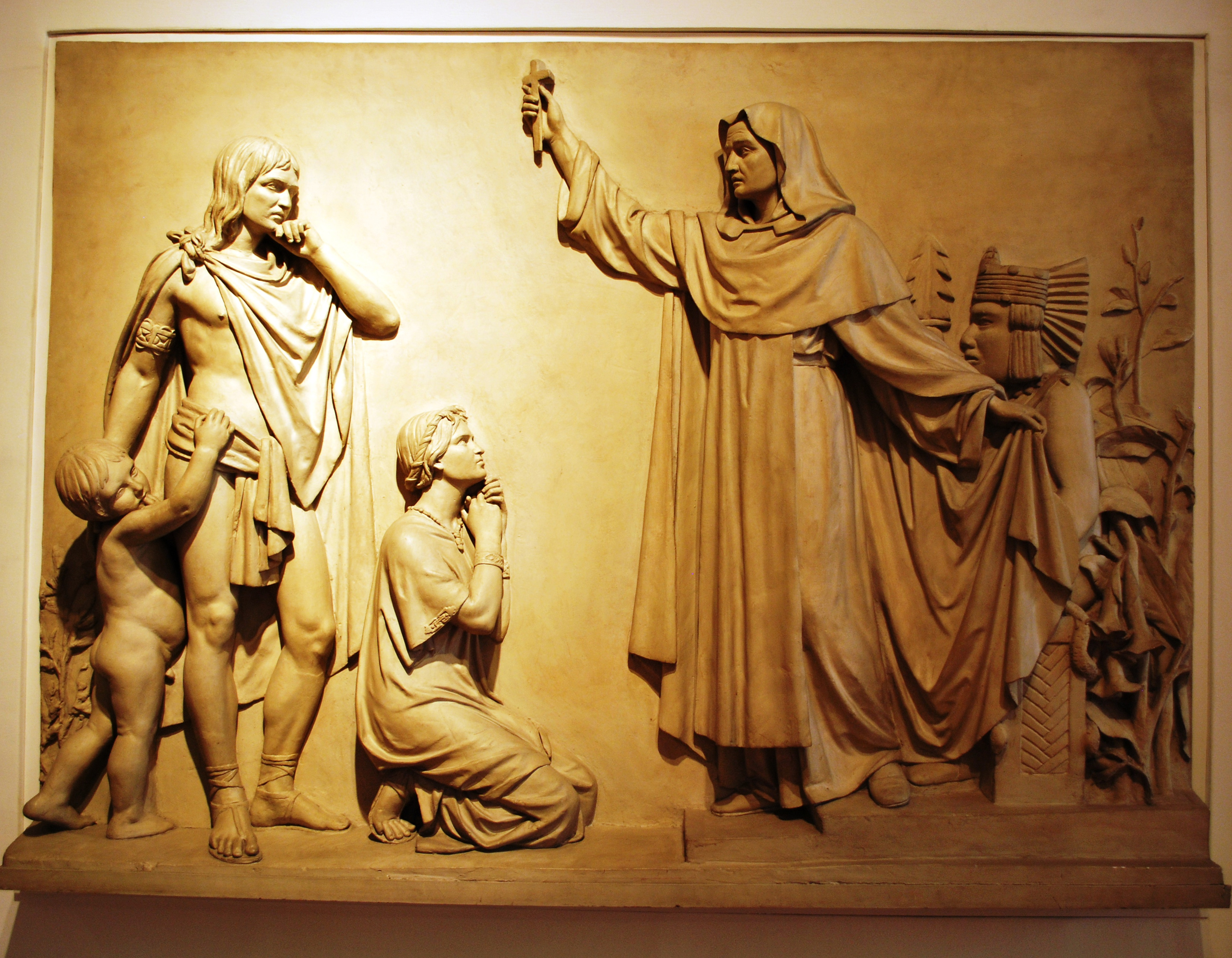 "Fray Bartolomé de las Casas, convertiendo a una familia azteca" by Miguel Noreña (1843-1894) done in 1865 on display at the Museo Nacional de Arte in Mexico City